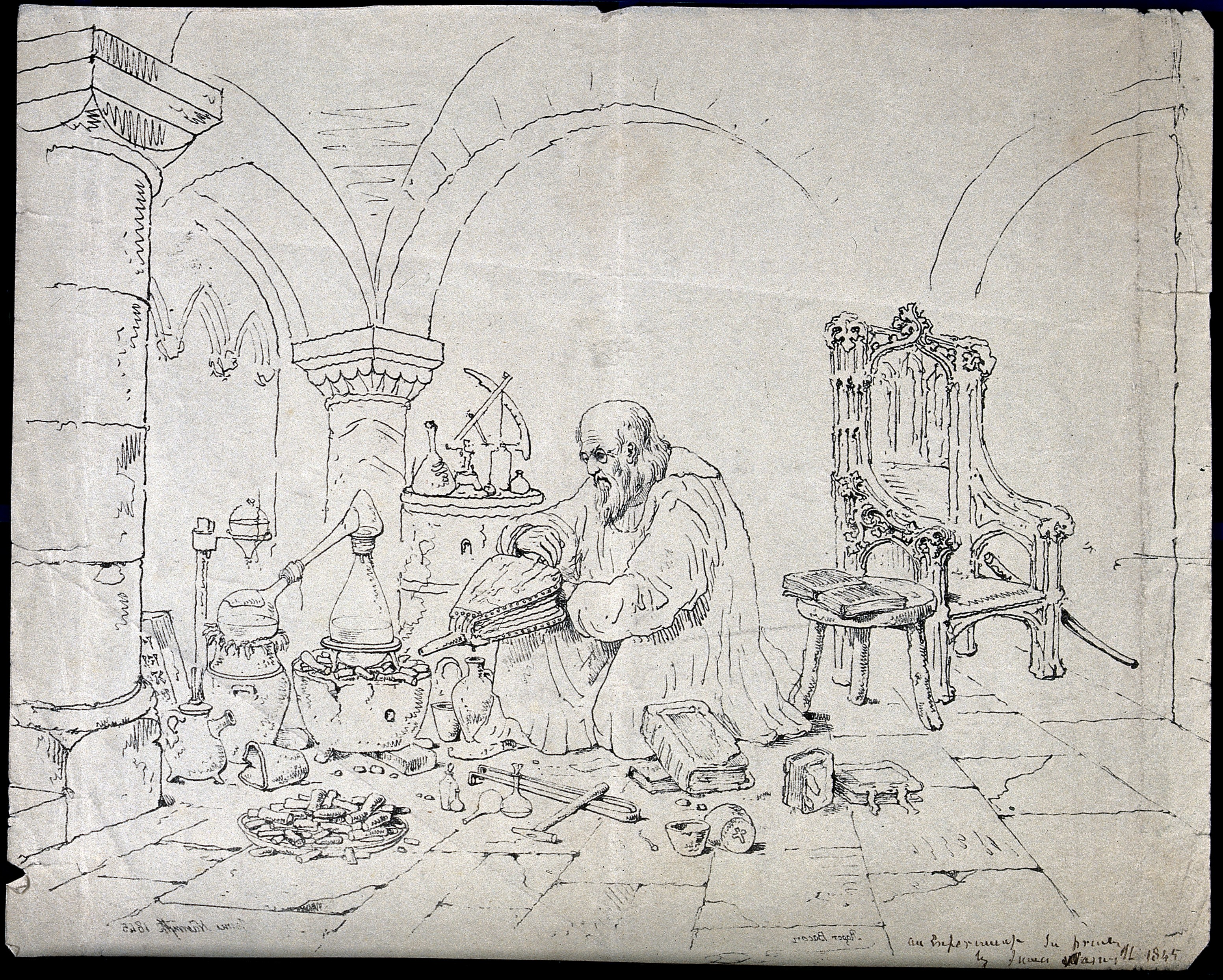 Roger Bacon conducting an alchemical experiment in a vaulted cloister. Etching by J. Nasmyth, 1845. Iconographic Collections Keywords: laboraties; pestles; Roger Bacon; James Nasmyth; Alchemy; Time; sir john tenniel; mortars; icv; crucible